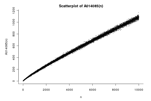 Plot of the number of primes between consecutive squares, illustrating Legendre's conjecture, taken from